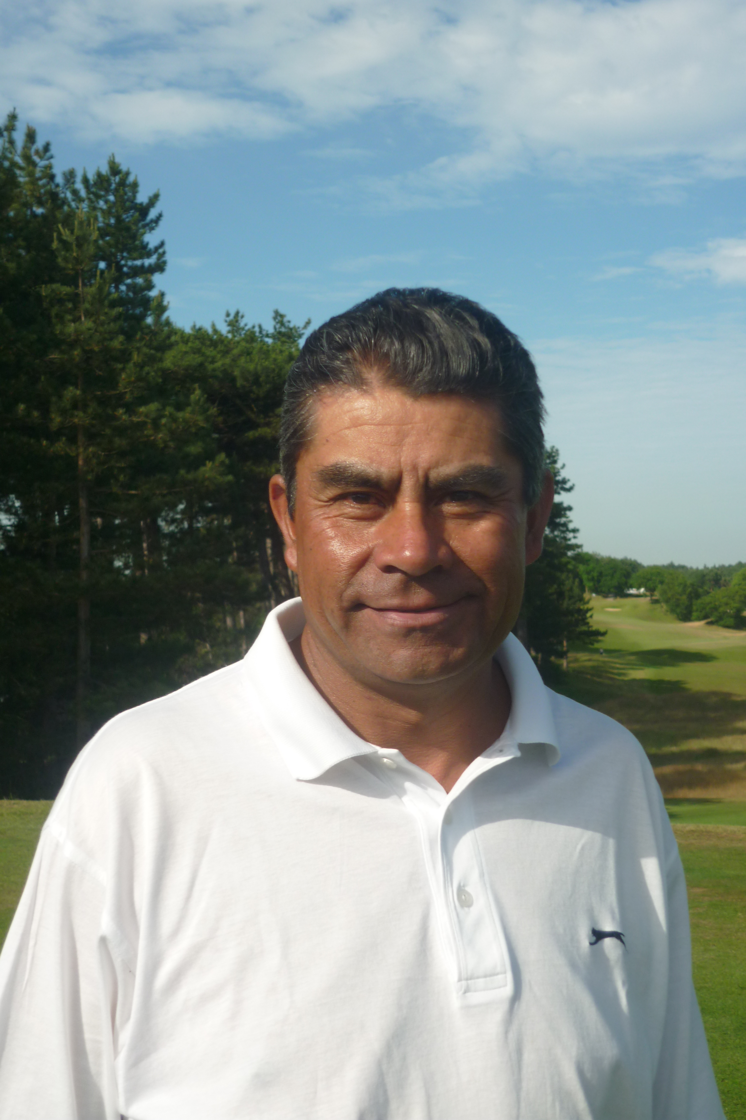 Angel Fernandez ar Dutch Seniors Open